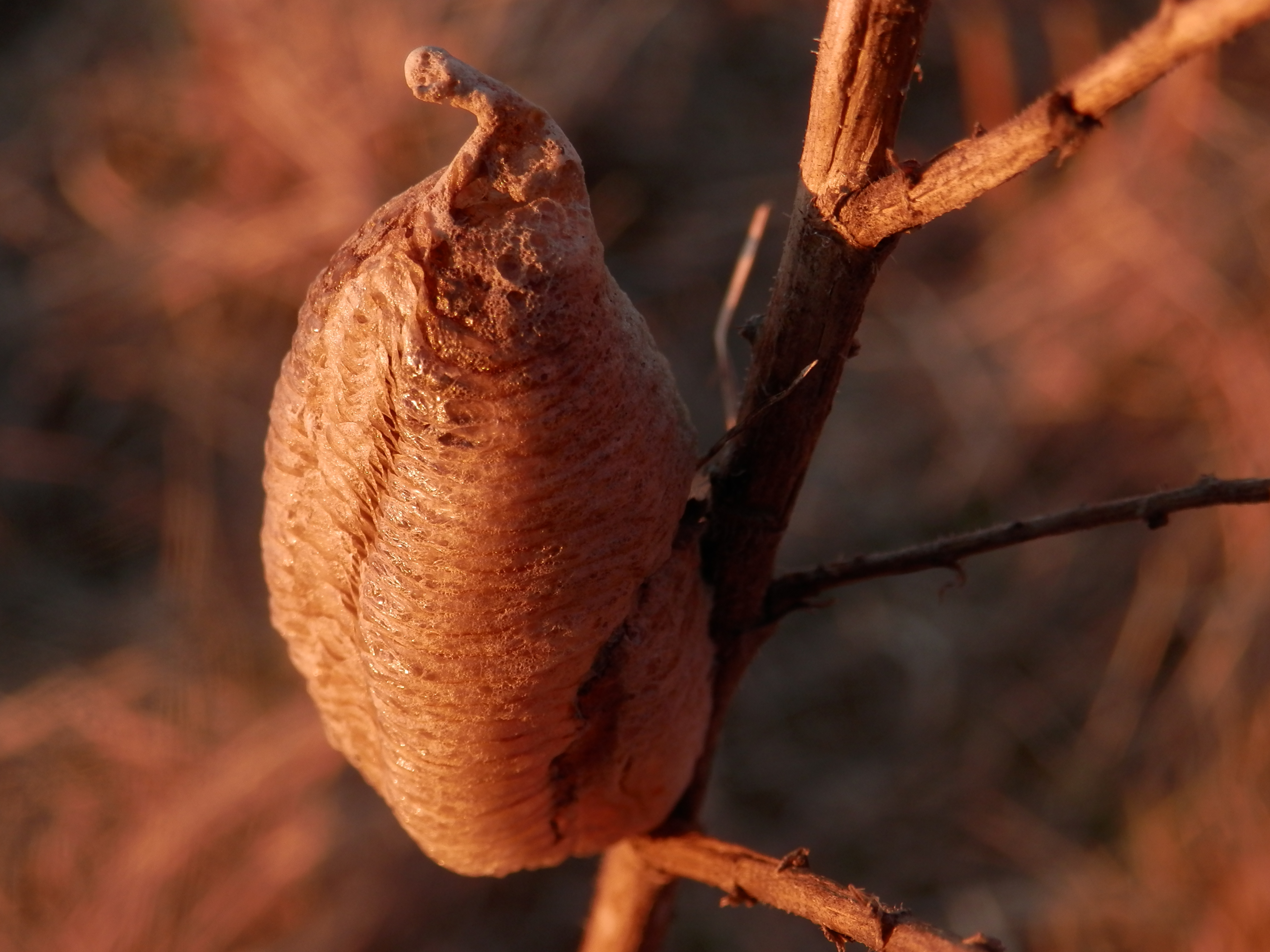 Praying Mantis (Mantis religiosa religiosa) Ootheca (Egg Mass) in Guelph, Ontario, Canada.